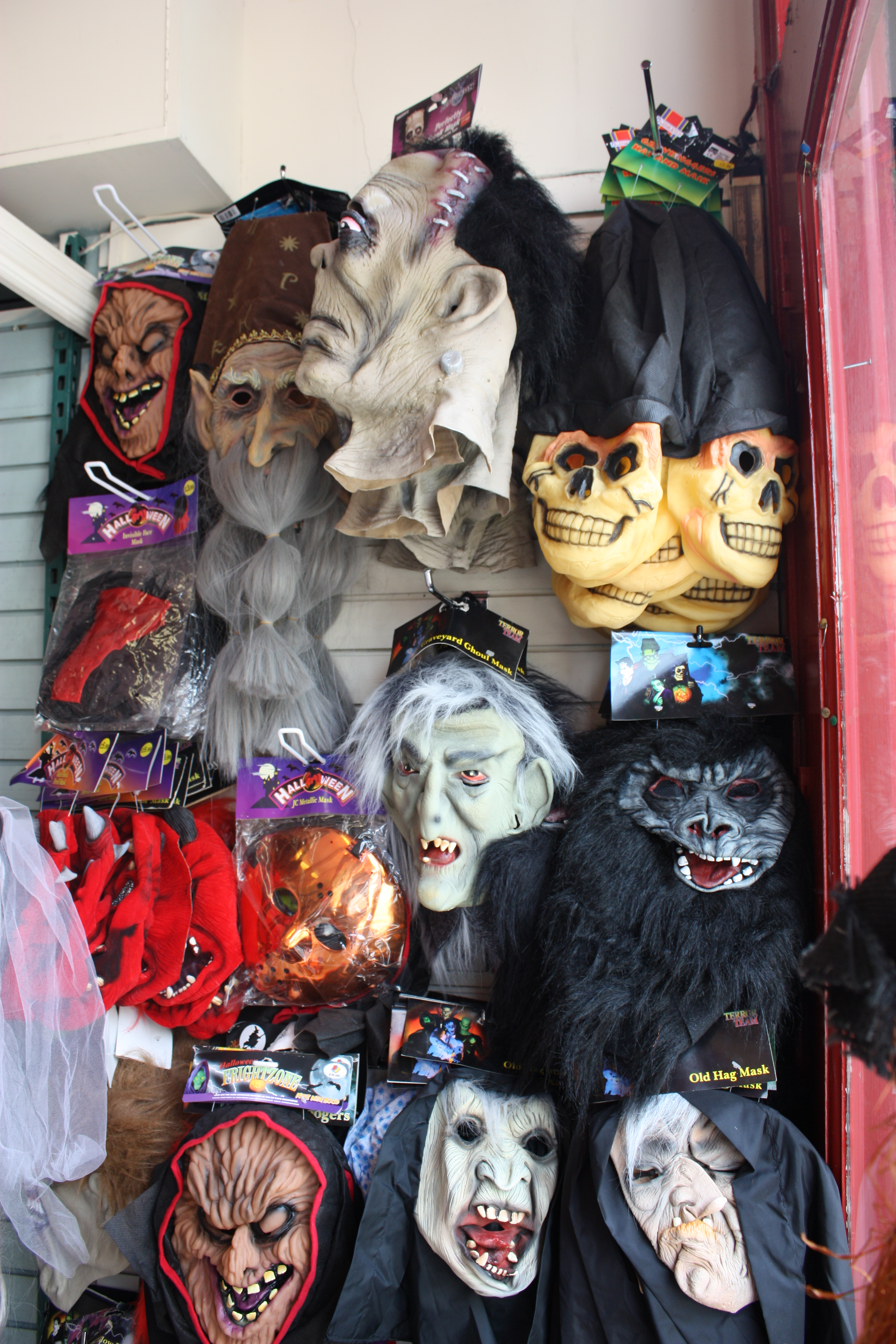 The Halloween Shop, Waterloo Street, Derry, County Londonderry, Northern Ireland, September 2010